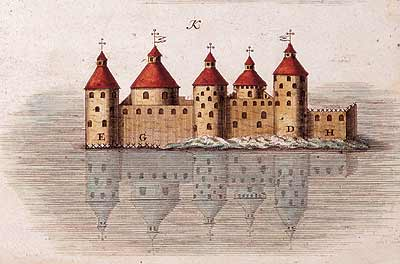 Copperplate of Olavinlinna castle in Savonlinna, Finland, made in Nuremberg in 1762.